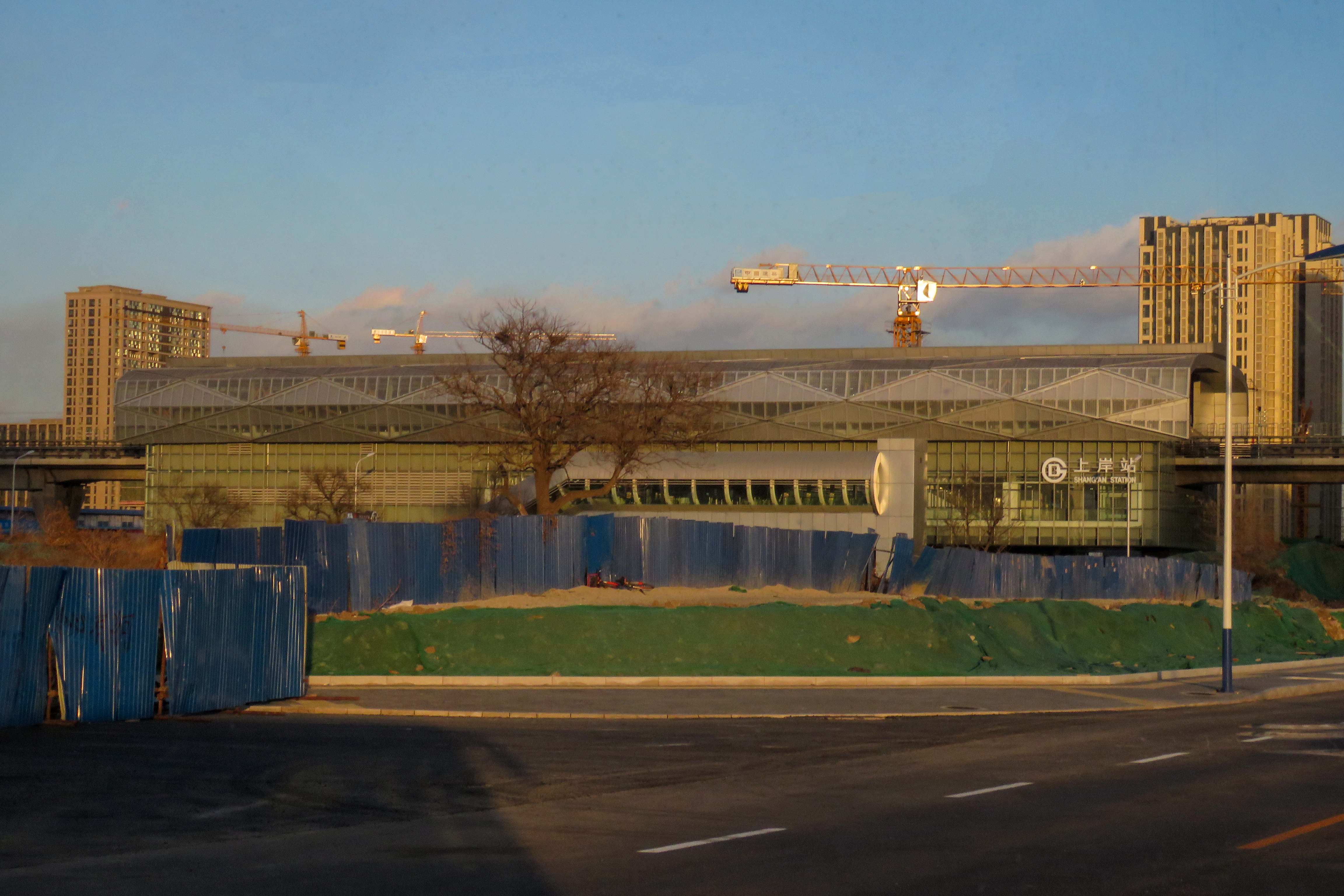 Taken from M27 Huiyu. Forget about Line 18 (or R1)...